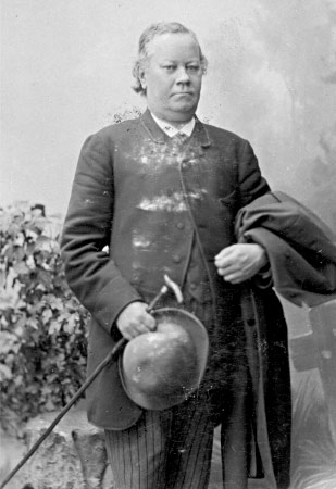 Kaarle Gummerus (1840-1898), a Finnish journalist and publisher